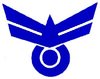 Shima-town Mie chapter. Since 2014, it is used for the flag of Shima city Shima junior high school.